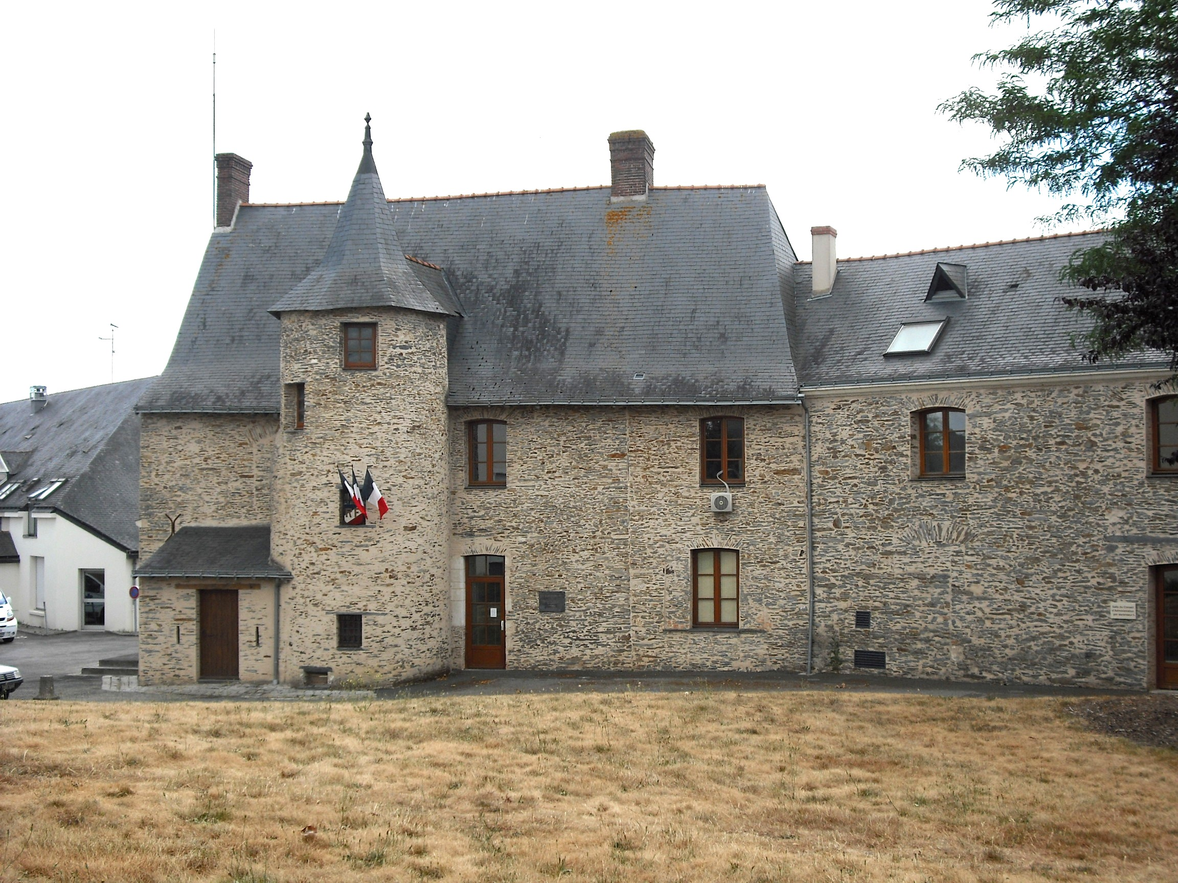 Ancient hospital St Nicolas, Candé, Maine-et-Loire, France